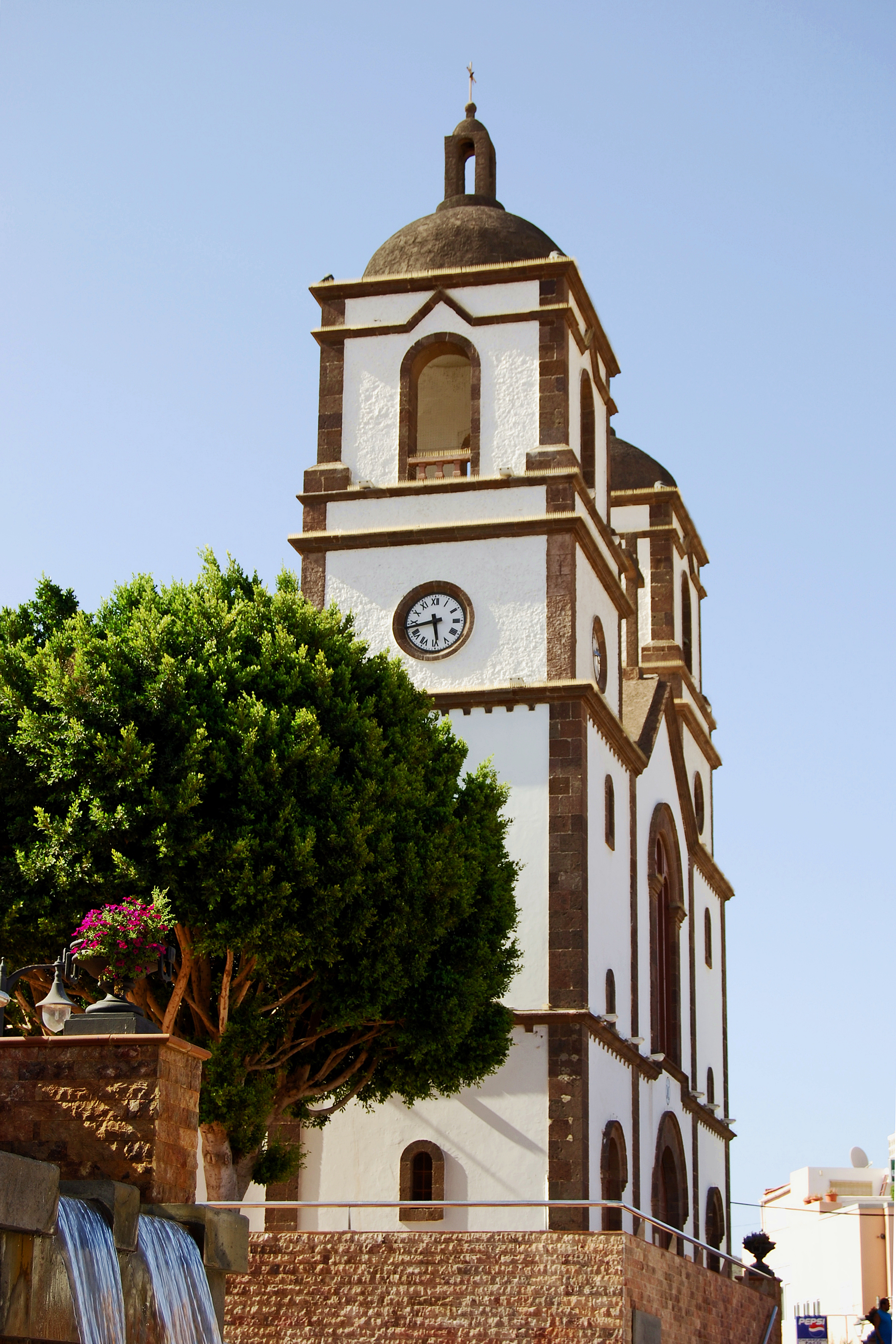 The church of Ingenio, Gran Canaria.